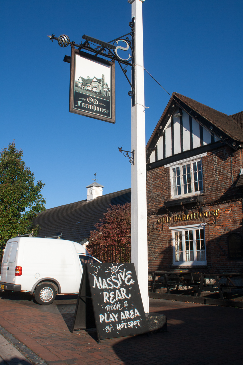 The Old Farmhouse pub in Southampton